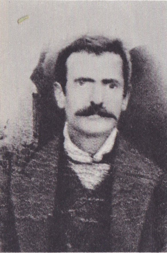 Йосиф Поппетров Пелович